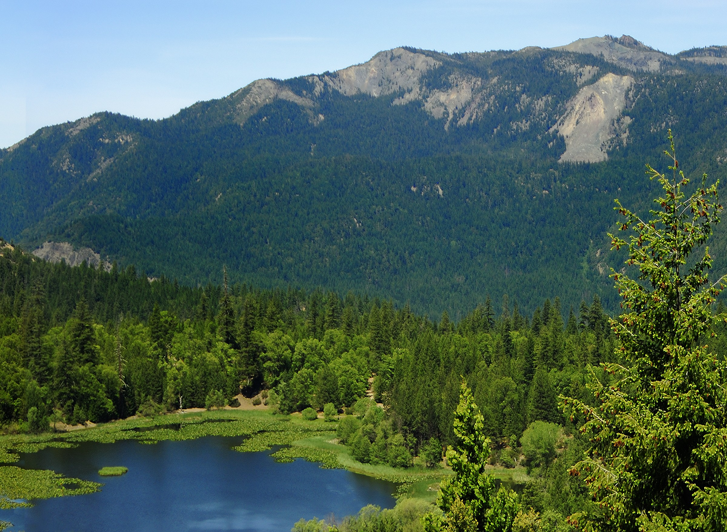 Howard Lake in the Mendocino National Forest with Anthony Peak in the background.